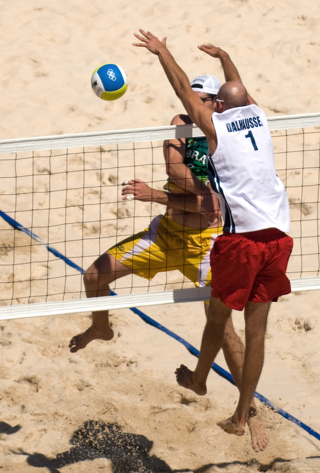 Beijing Olympics, Men's Beach volley, Final: Phil Dalhausser in white v. Fábio Luiz Magalhães of Brazil This was the block that scored the final point in the gold medal game for the US Beach Volleyball team at the Beijing Olympics.